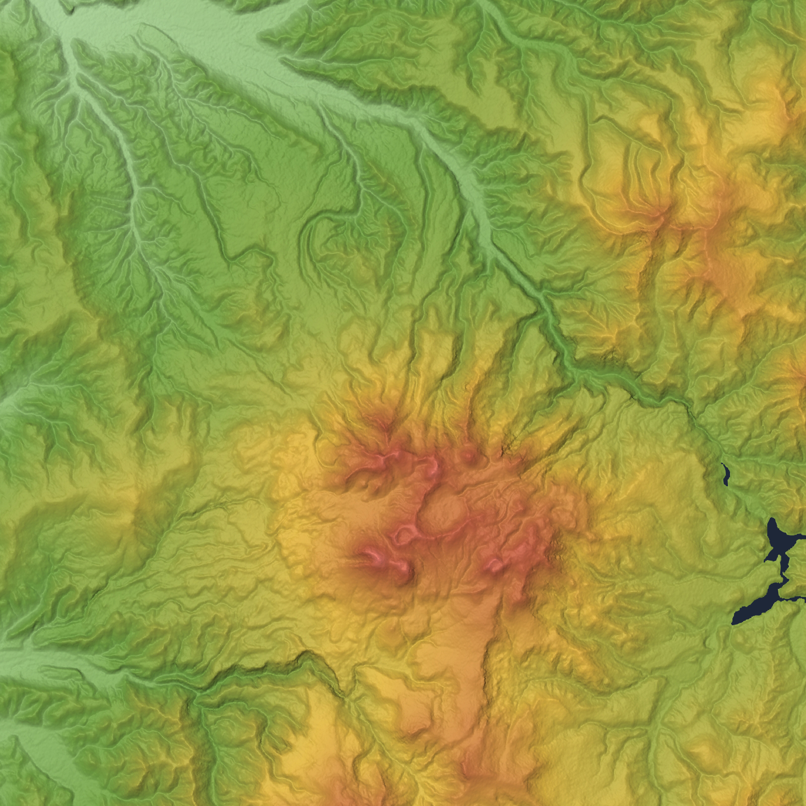 Taisetsu Volcano Group in Hokkaido, Japan. Taisetsu is also written as Daisetsu.